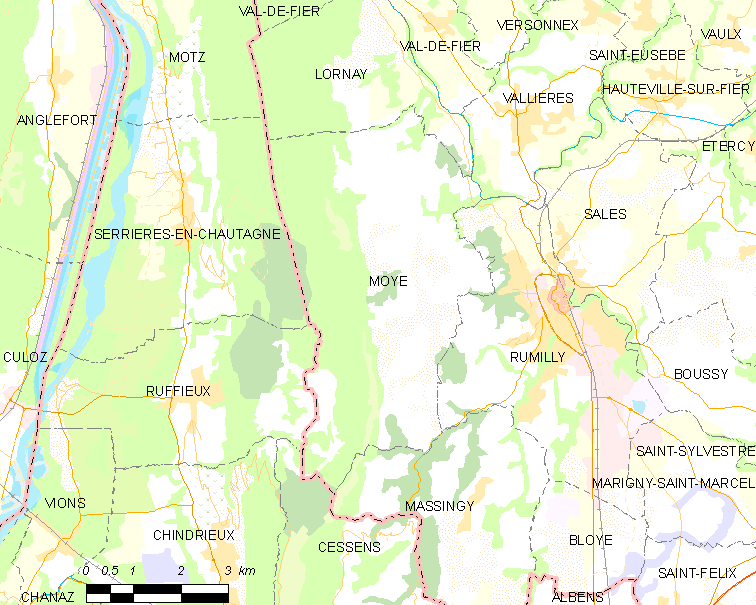 Map of French municipality Moye